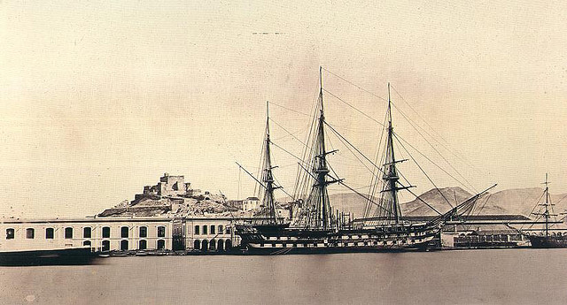 Spanish ship of the line Reina Isabel II at Cartagena, penultimate ships of the line made ​​in Spain and last in service